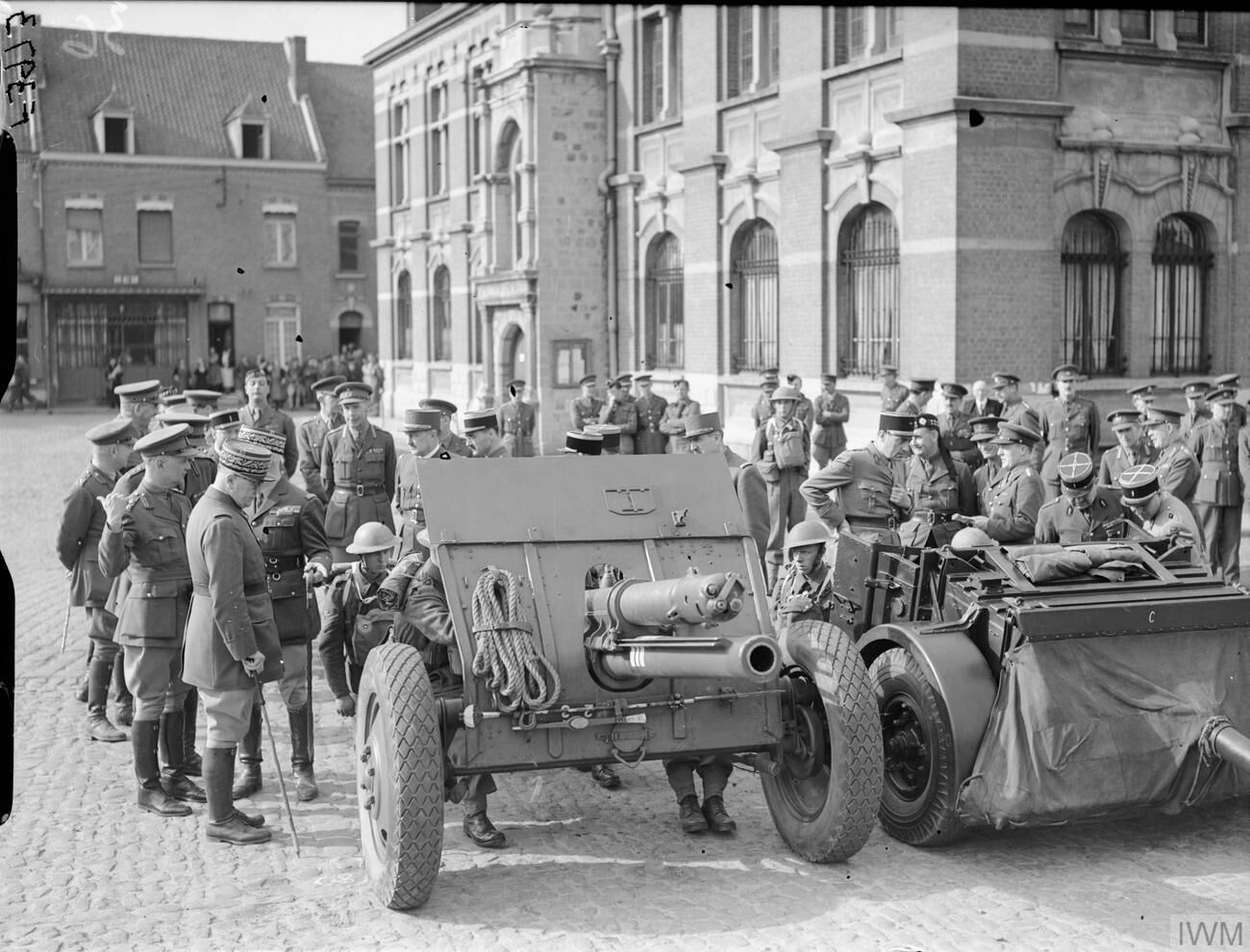 THE BRITISH ARMY IN FRANCE 1940. An 18-pdr gun being inspected by General Georges and senior officers of the French and British armies at Orchies. Comment : This is a Mk II gun on Mk I* or II carriage of World War I vintage. It has the bronze reservoir fitted to the end of the recuperator (above the barrel) as part of the upgrade to hydro-pneumatic recuperator.